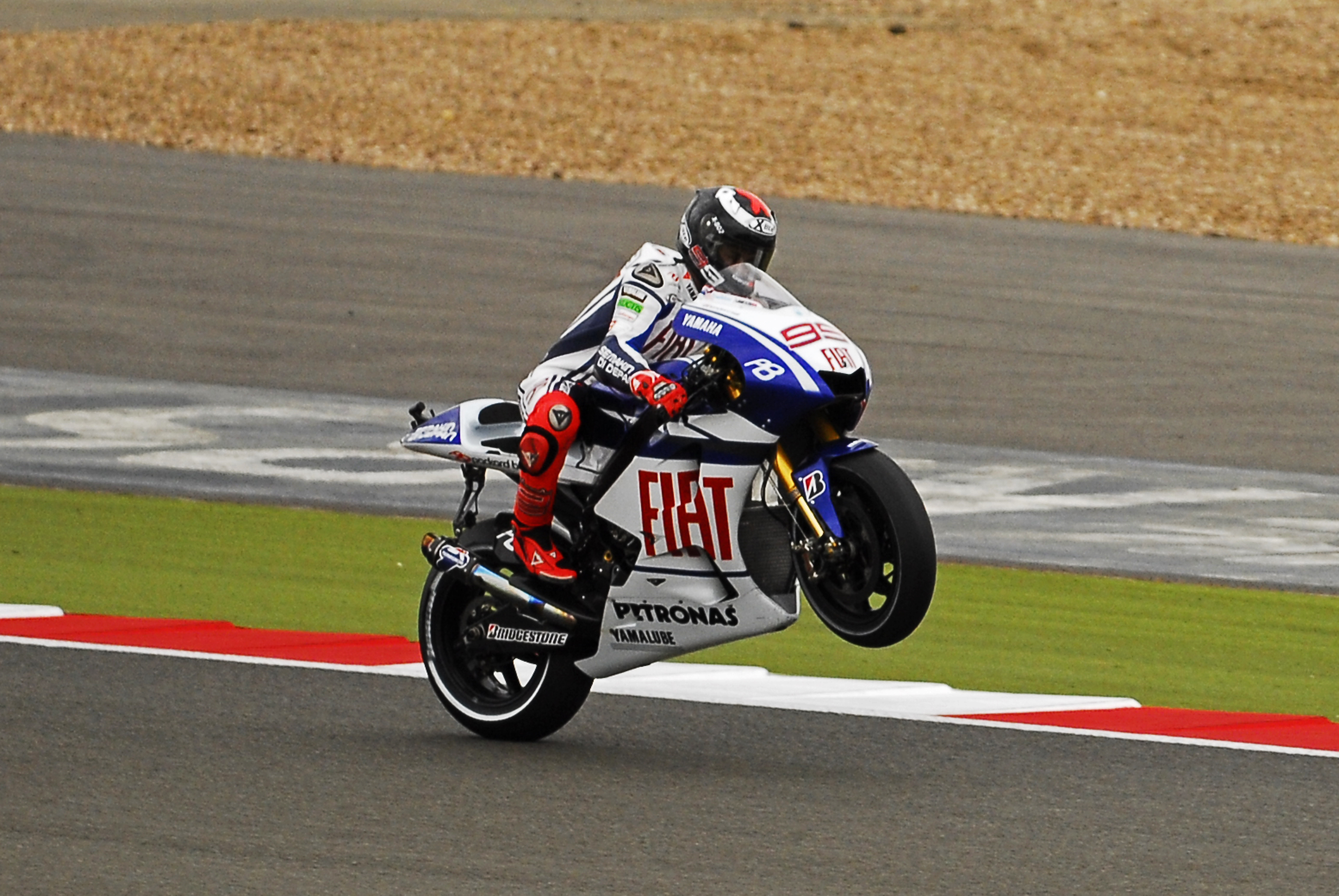 Jorge Lorenzo pulls a wheeley during the British Grand Prix